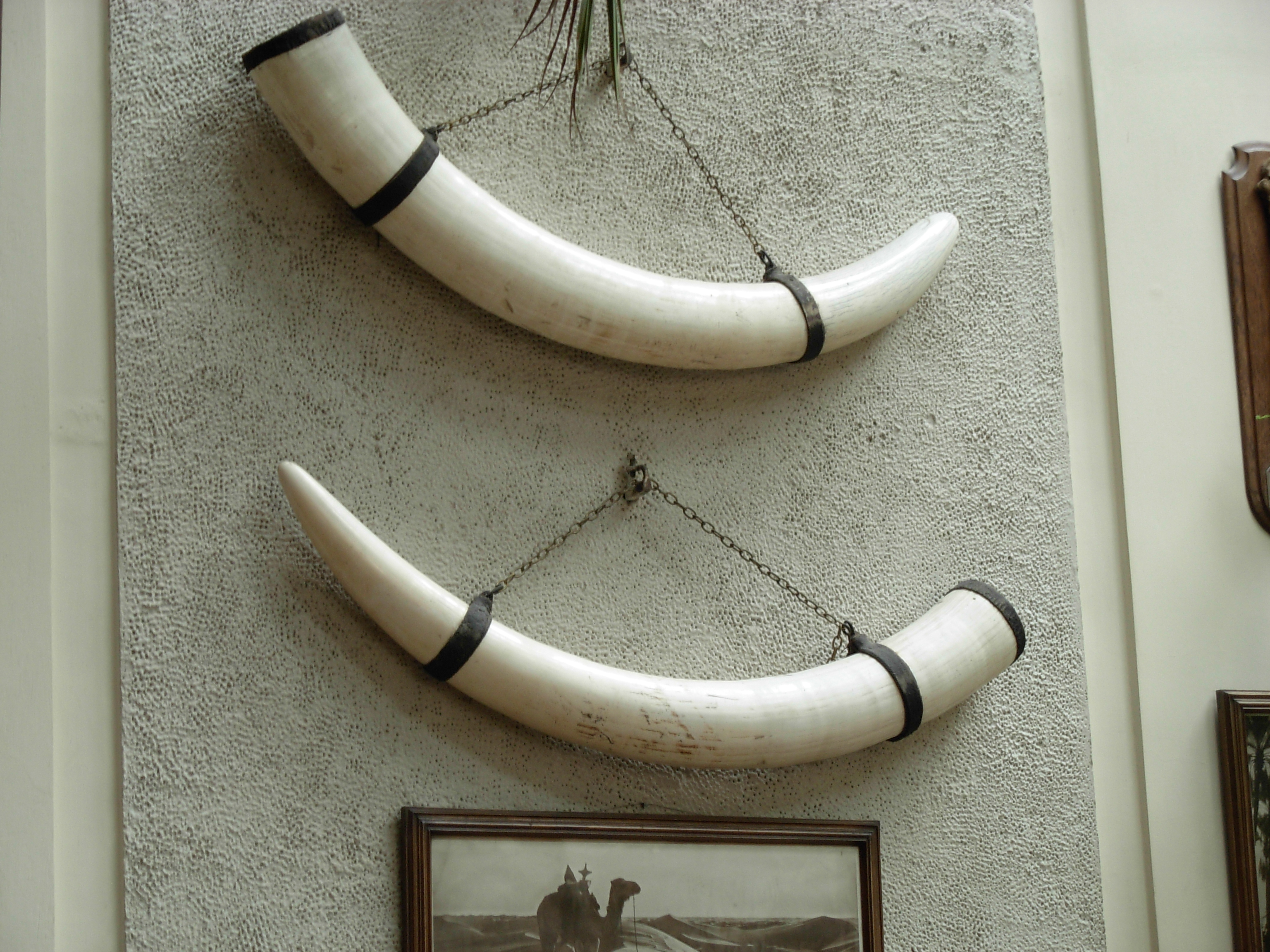 Łańcut Castle and neighbourhood. Many photos courtesy of Łańcut Museum staff.